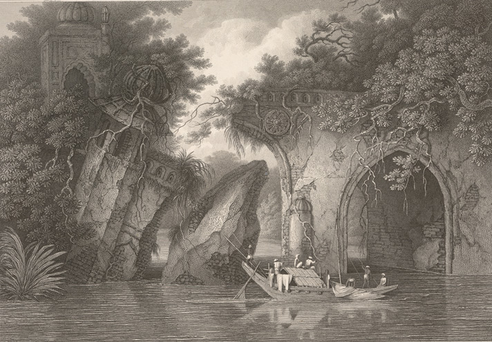 This etching is taken from plate 4 of Charles D'Oyly's 'Antiquities of Dacca'. It shows the picturesque ruin of Paugla Pool ('pul' meaning bridge). This was described by the Persian scholar and historian, James Atkinson, as "a most elegant structure, but ... has been much broken and shattered by the floods of the Ganges, or the destructive operations of war, or perhaps both. Its remains are still exceedingly picturesque."